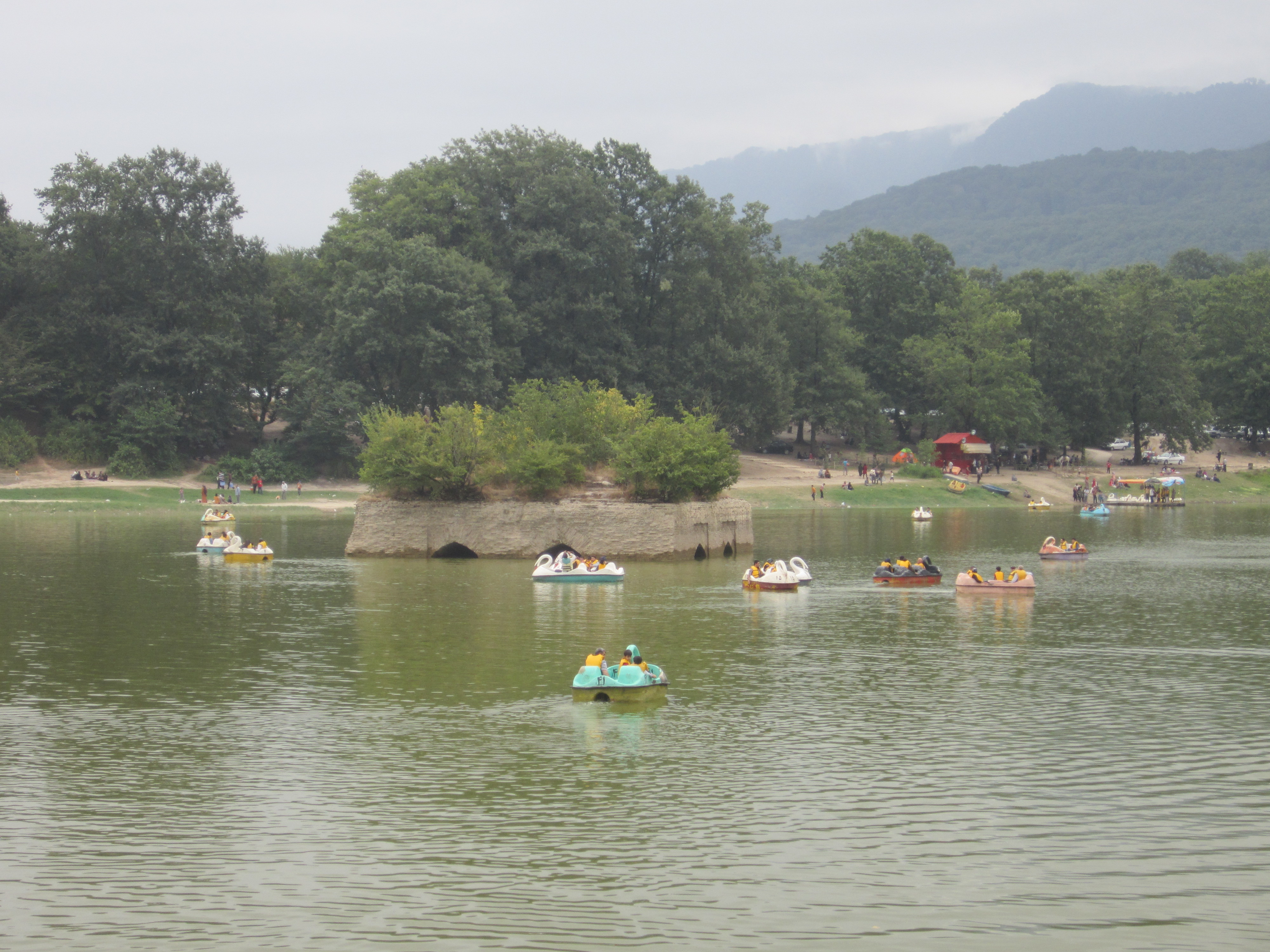 Abbasabad garden (Persian gardens) in Behshahr city, Mazandaran, Iran. مازِرونی: عباس‌آباد ِباغ، اشرف ِشهر، مازرون استان، ایران.